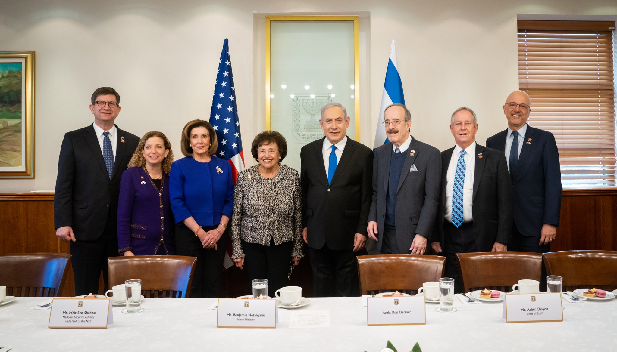 Today, our delegation began its visit in Israel by holding meetings w/ @Netanyahu, @YuliEdelstein & Knesset members, & @AvigdorLiberman w/ the purpose of continuing to build on the strong bonds between our two nations as we mark 75 years since the liberation of Auschwitz.